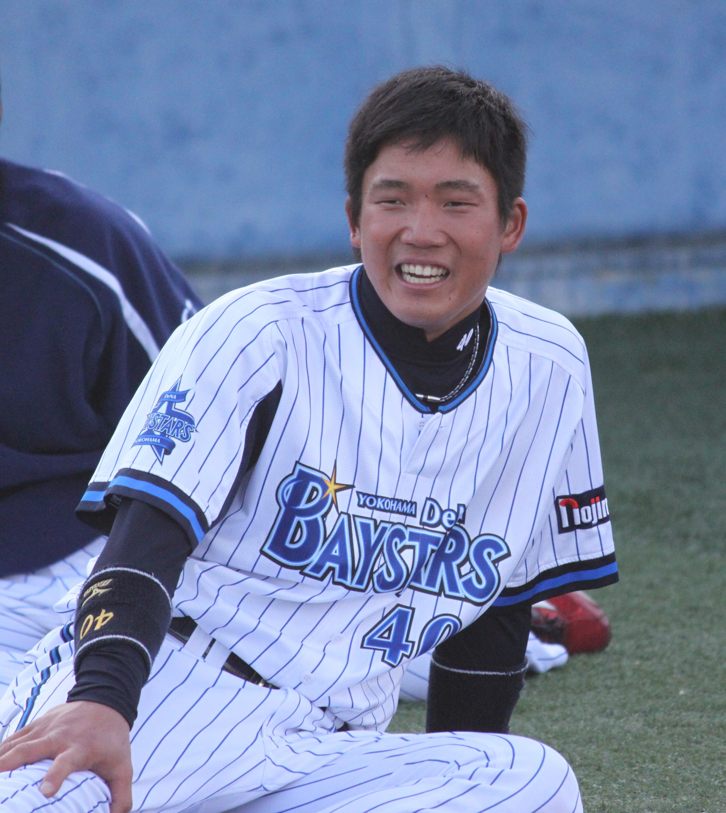 Hyuma Matsui, infielder of the Yokohama DeNA BayStars, at Yokosuka Stadium.